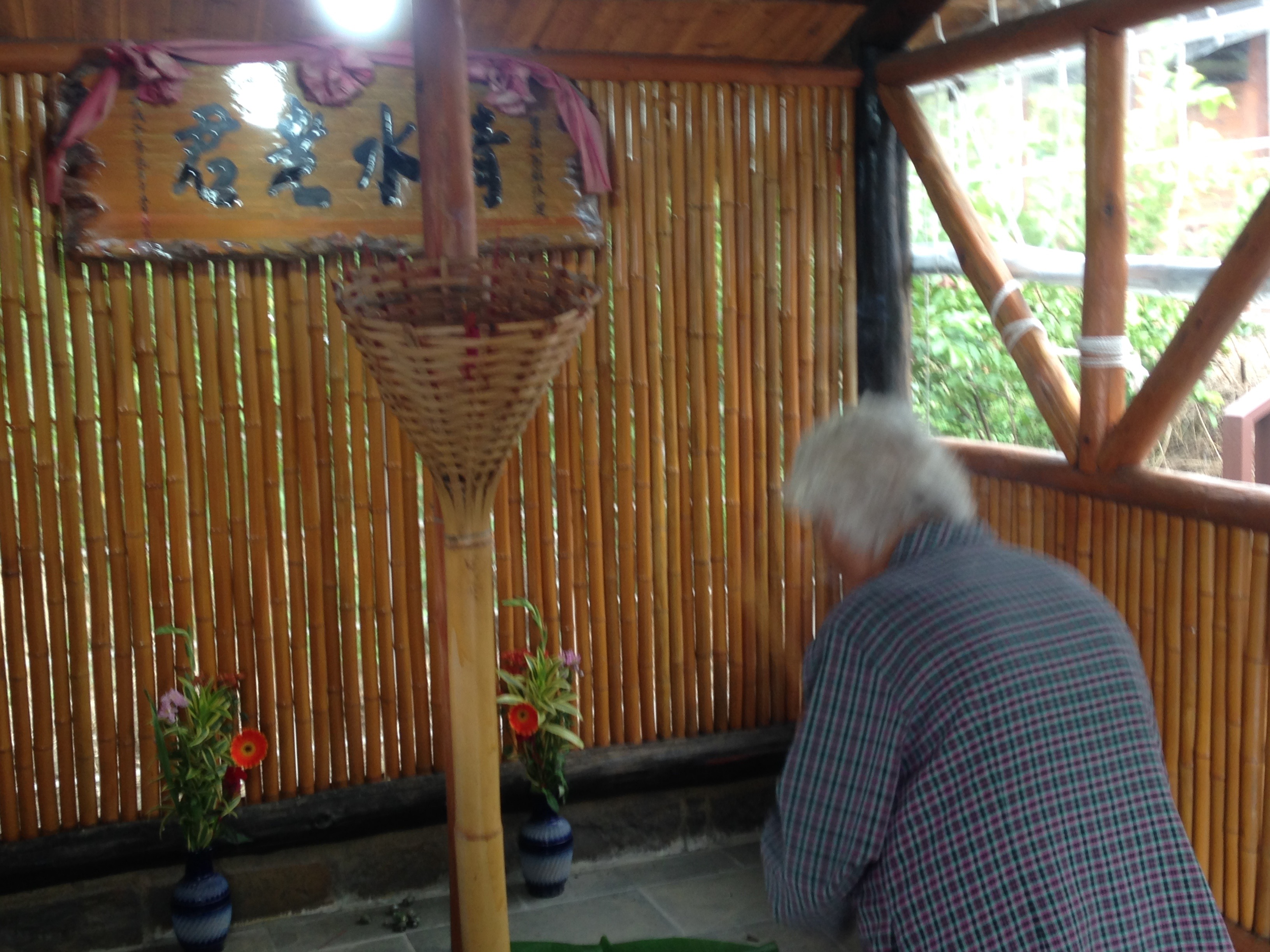 Worship in Taivoan Shrine of Fukun in Liuchongxi tribe. 中文（台灣）: 六重溪部落清水老君公廨裡的祭祀。